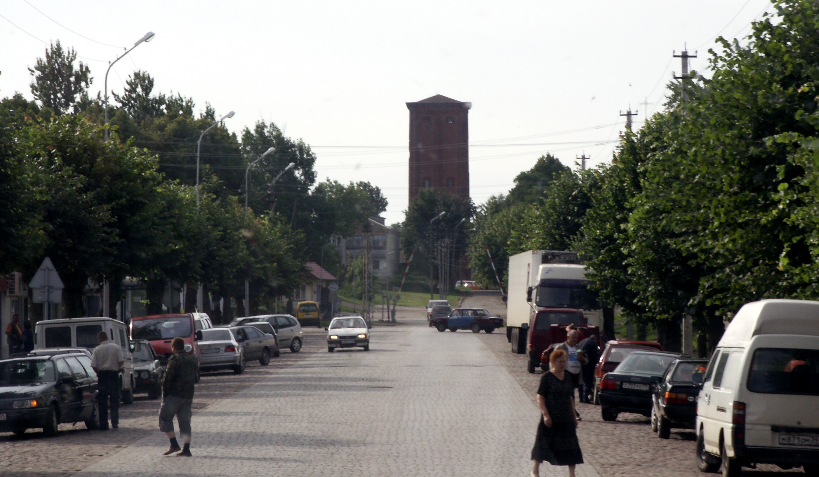 Nesterov in Kaliningrad oblast